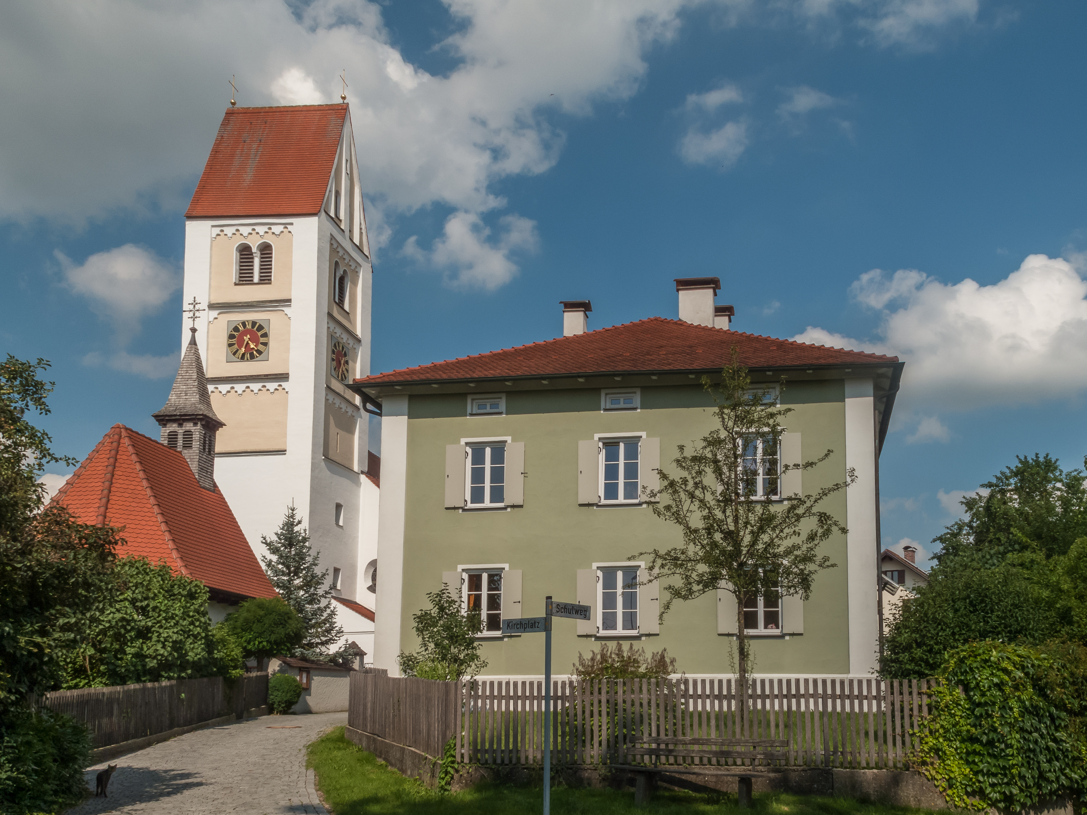 Hawangen, church: die katholische Pfarrkirche Sankt Stephan This is a photograph of an architectural monument.